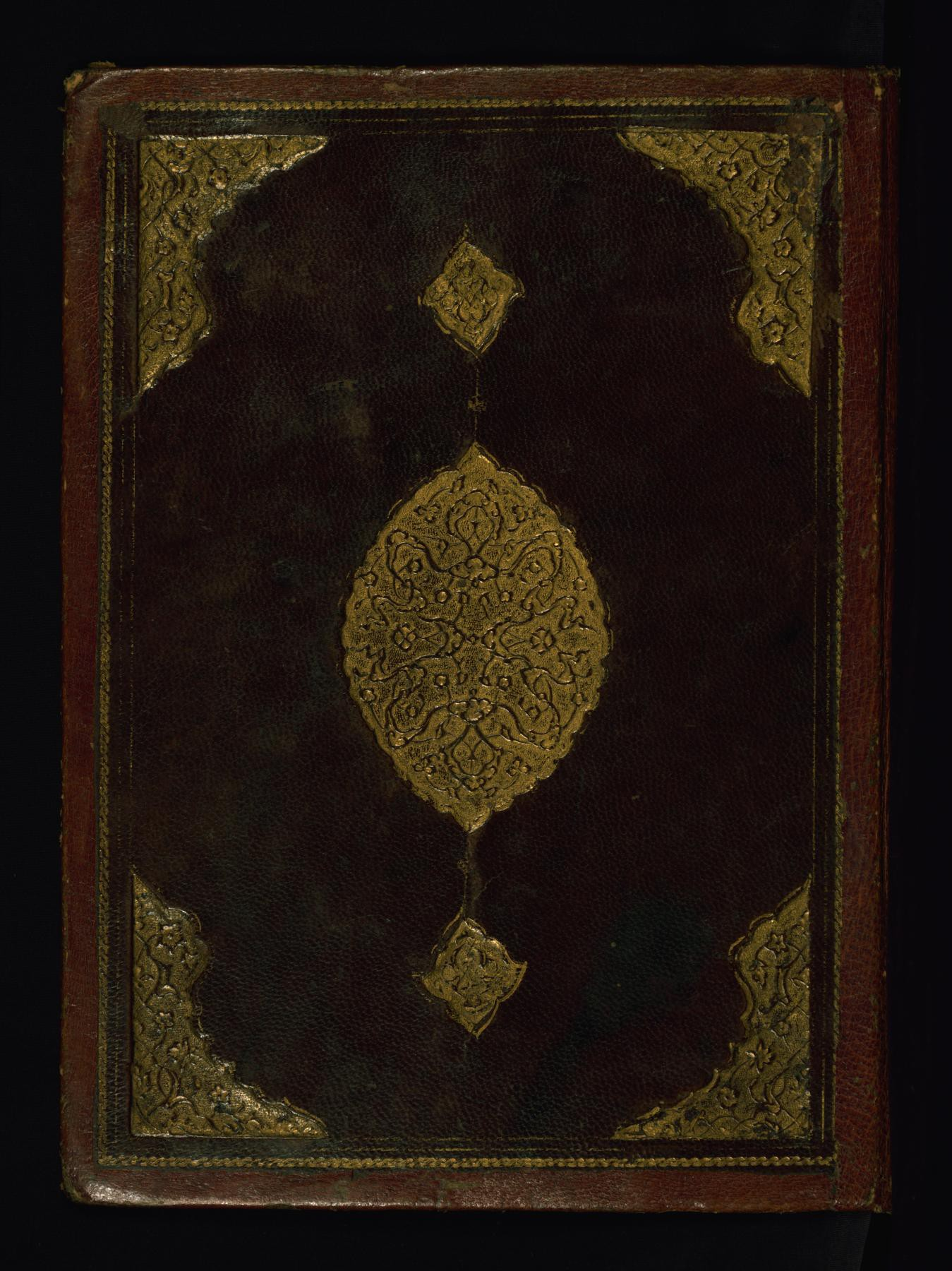 Walters manuscript W.663 is a Safavid illuminated and illustrated collection of the Hamse (quintet), written in Çagatay (eastern Turkic), composed by the celebrated 'Ali ?ir Neva'i (died 906 AH/AD 1501), and inspired by the Persian Khamse of Nizami and Amir Khusraw Dihlavi. This copy dates to the 10th century AH/AD 16th and has 5 double-page illustrations in the early Safavid court style. Each double-page illustration introduces the following individual poems: Kitab-i heyrat ül-ebrar (fols. 1b-2a), Kitab-i Ferhad va Sirin (fols. 45b-46a), Kitab-i Mecnun va Leyla (fols. 108b-109a), Kitab-i Hest bihist (fols. 147b-148a), and Kitab-i Iskendername (fols. 199b-200a). Each poem is also introduced by an illuminated incipit (fols. 2b, 46b, 109b, 148b, and 200b). The brown goatskin binding has a central lobed oval with pendants and cornerpieces brushed with gold. It is possibly attributable to the10th century AH/AD 16th.